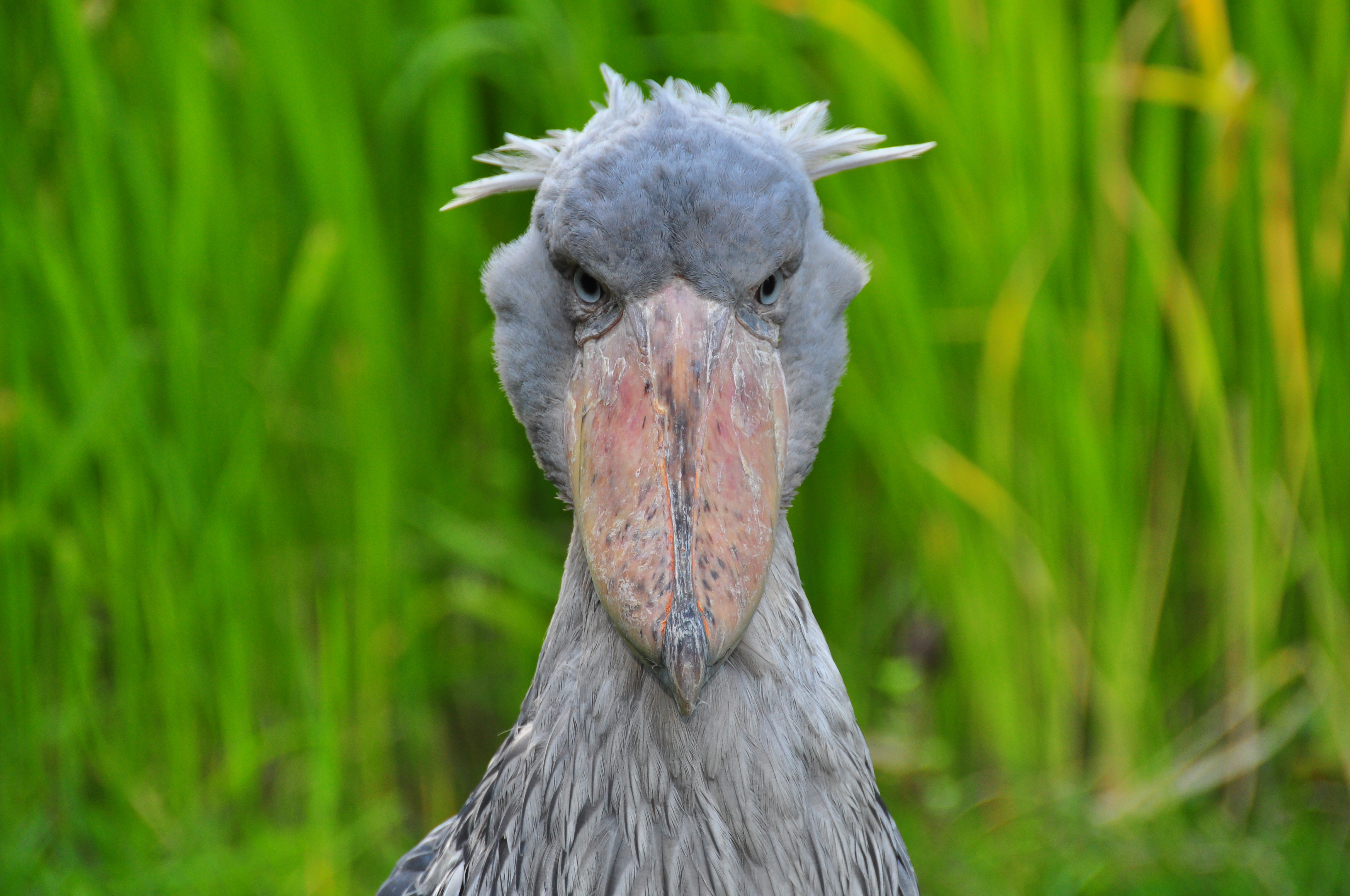 Front view of the Shoebill (Balaeniceps rex) at Weltvogelpark Walsrode (Walsrode Bird Park, Germany)